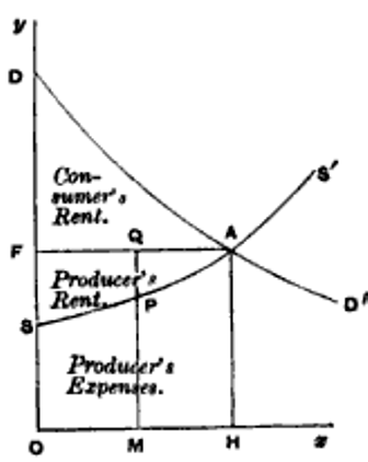 This graph was first developed and popularized by Alfred Marshall. It became the standard model to demonstrate not only supply and demand but also many other principles of economics.